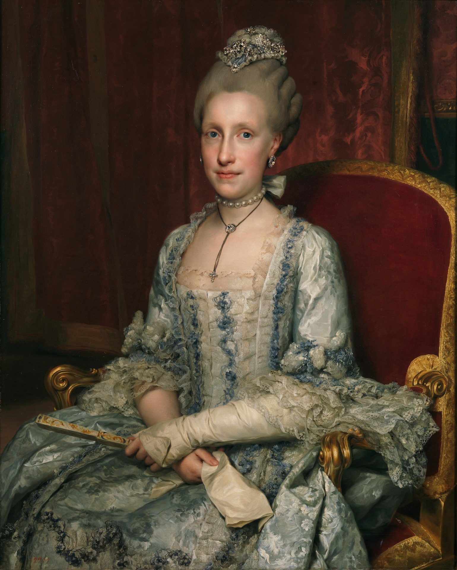 Portrait of Maria Luisa of Spain (1745-1792), Holy Roman Empress.